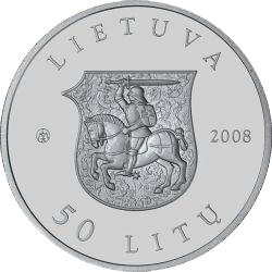 50 litas coin dedicated to the 550th Birth Anniversary of Sv. Kazimieras (St Casimir) Silver Ag 925 Quality proof Diameter 38.61 mm Weight 28.28 g Mintage 5,000 pcs Issued 2008 The coin was minted at the state enterprise Lithuanian Mint.